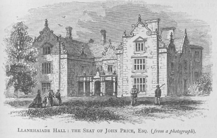 Llanrhaidr Hall, Powys Thomas Nicholls “Annals and Antiquities of the Counties and County Families of Wales, Longmans, London 1872. Vol 1, 375